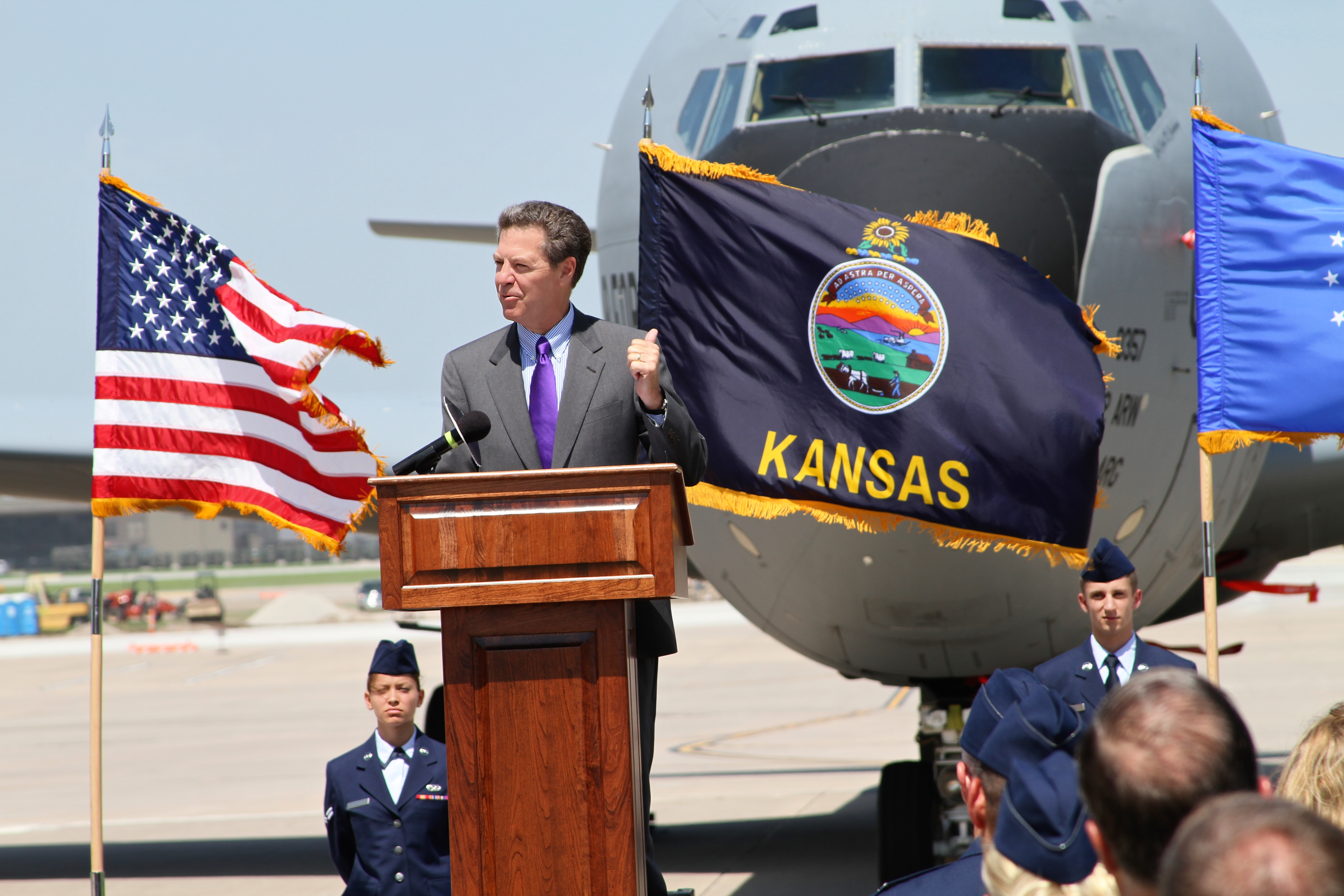 Kansas City